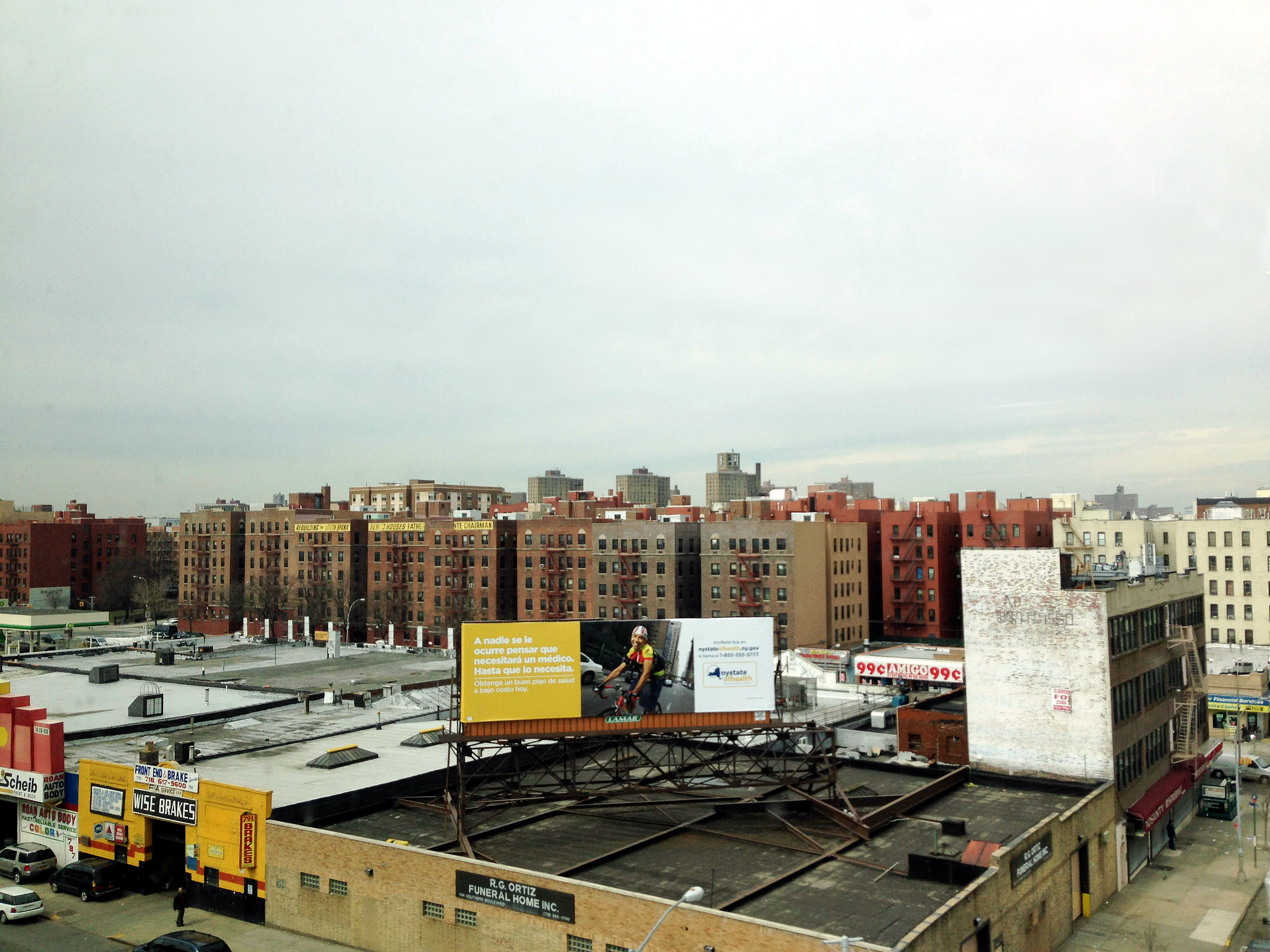 Prewar highrises in the Longwood area of The Bronx, seen through a bus window on the Bruckner Expressway